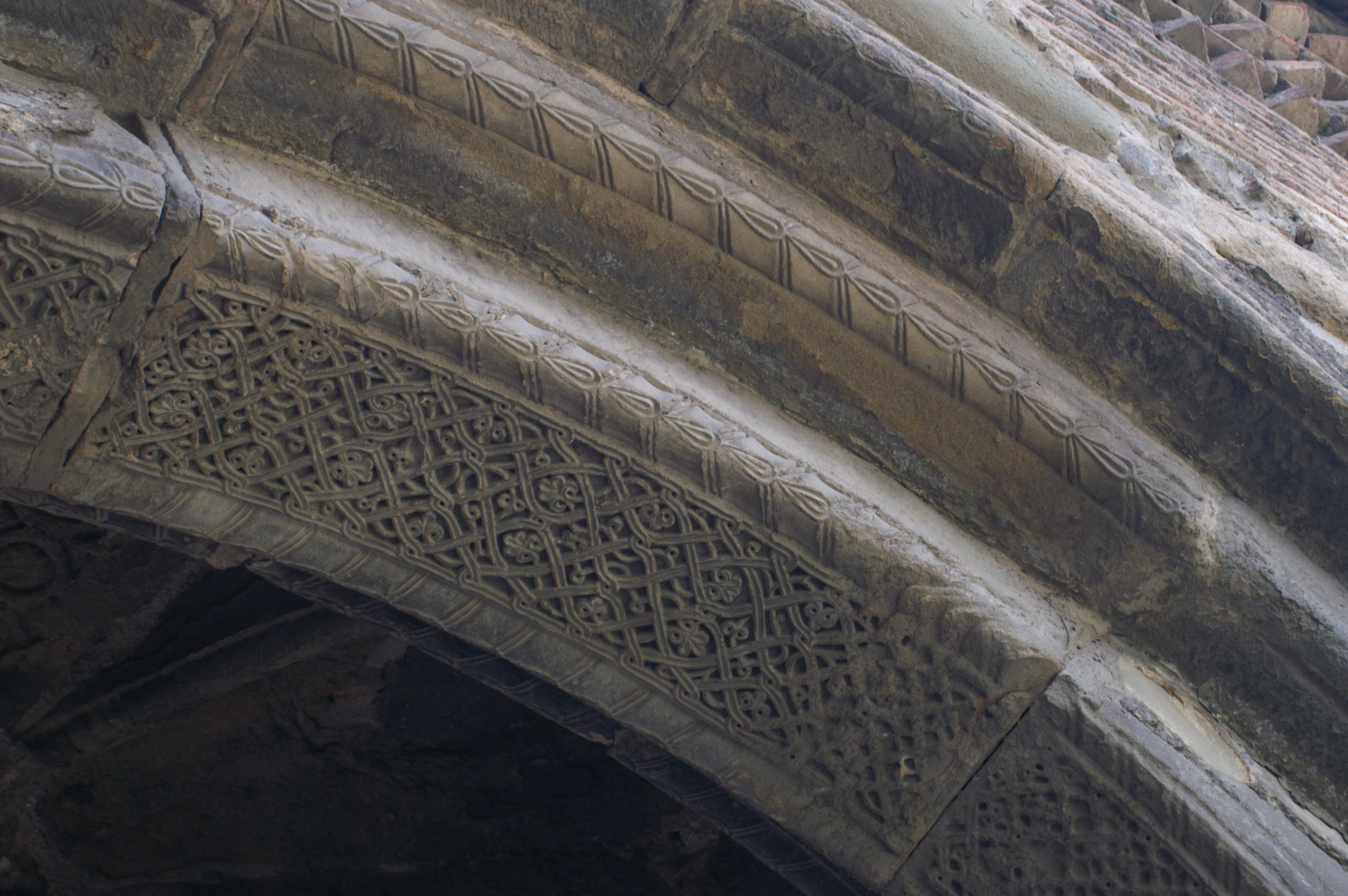 Carving of the the portal arch in Metekhi Church, Tbilisi